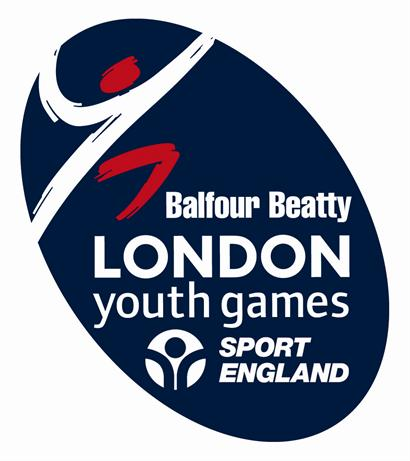 London Youth Games logo